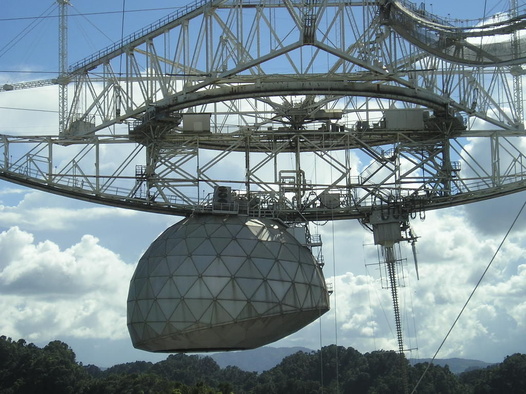 Closeup of the feed antenna of the Arecibo Radio Telescope, at Arecibo, Puerto Rico. The dish reflector of the telescope is built into a valley in the landscape, and the feed antenna is suspended by cables above it. Since the reflector can't be moved, the telescope is steered to point at different regions of the sky by moving the feed antenna (in bell shaped dome) along on a curving track. The dome shields the feed antenna from interfering radio signals.